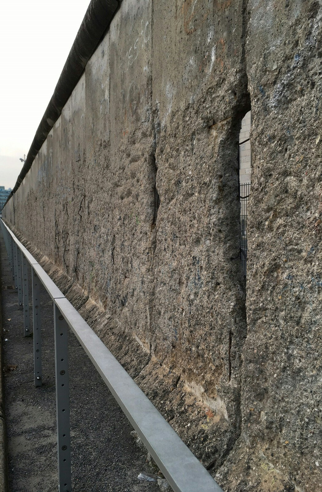 Holes in part of the Berlin wall